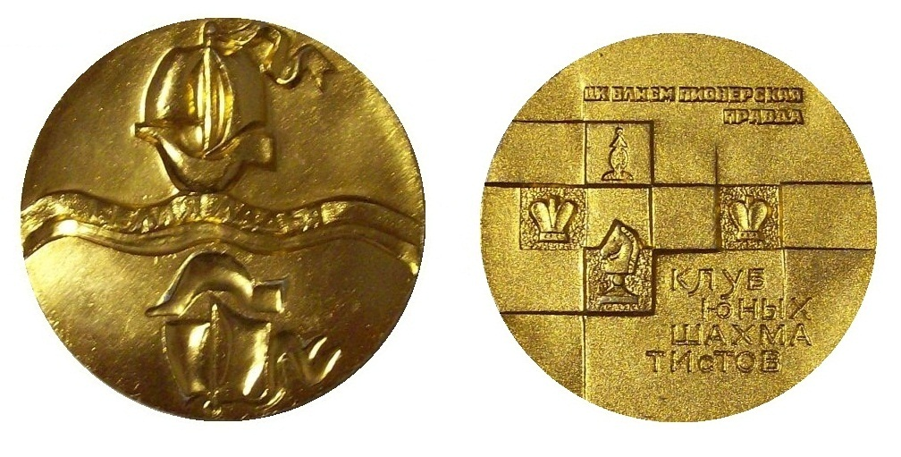 Medal of young chess players, the prize of the newspaper Pionerskaya Pravda.